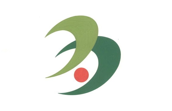 Flag of Taka Hyogo